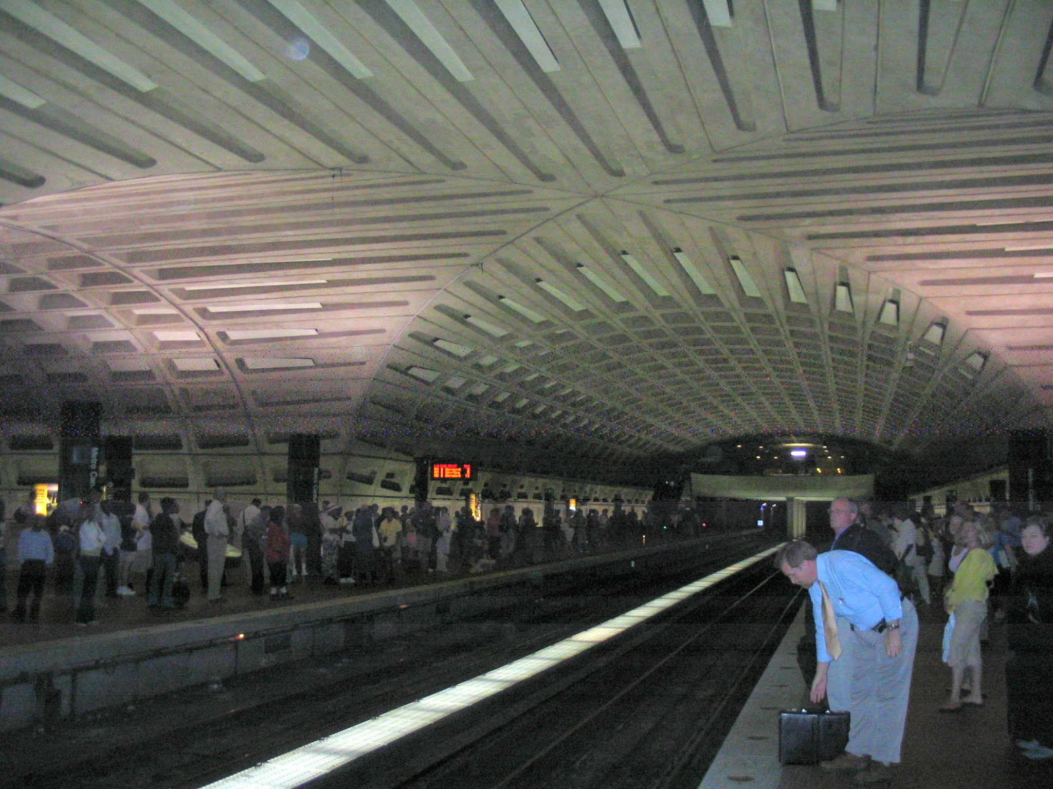 Washington Metro station.